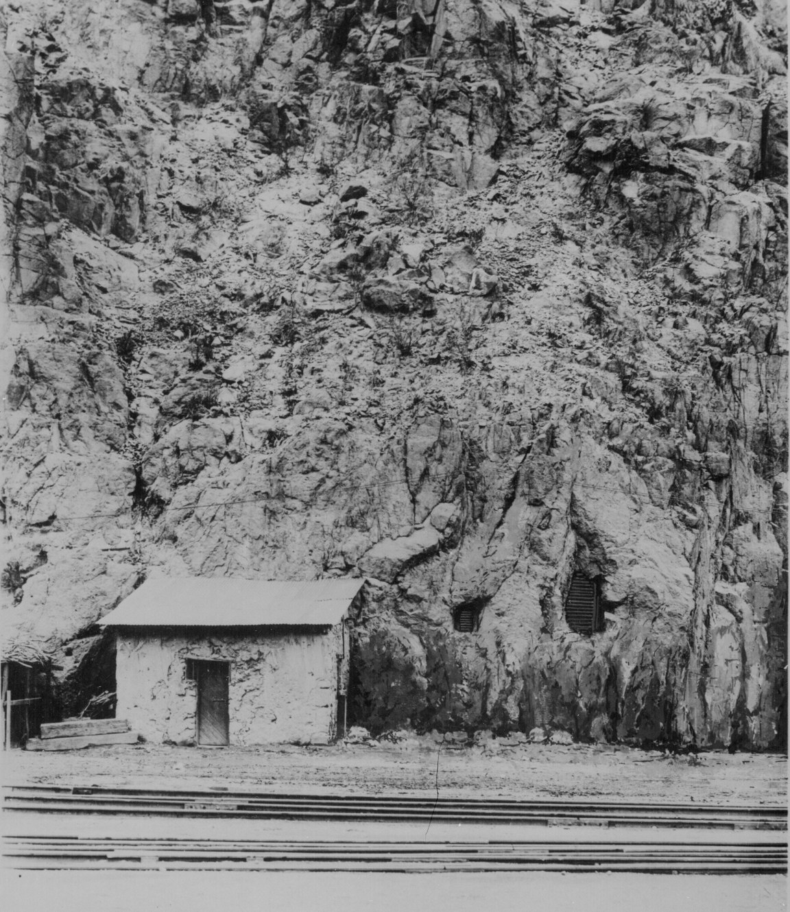 The Clifton Cliff Jail in Clifton, Arizona, sometime between 1881, when it was built, and 1906, when it was closed.